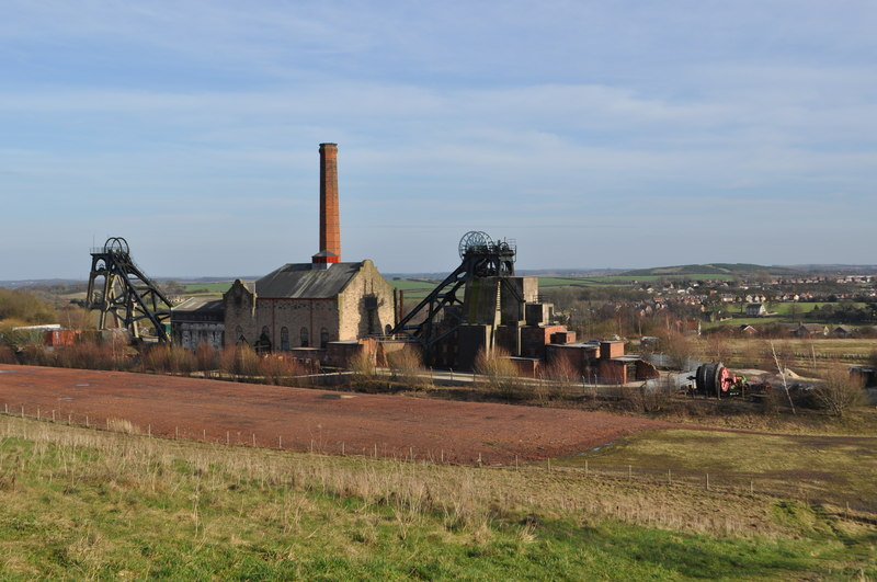 Pleasley Colliery, near to Pleasley, Derbyshire, Great Britain. A view of the colliery from the landscaped spoil heap. I think the spoil heap for Mansfield Main is to the right. Just behind that is Mansfield woodhouse station. On a day like today the two massive headstocks for Clipstone colliery were visible.